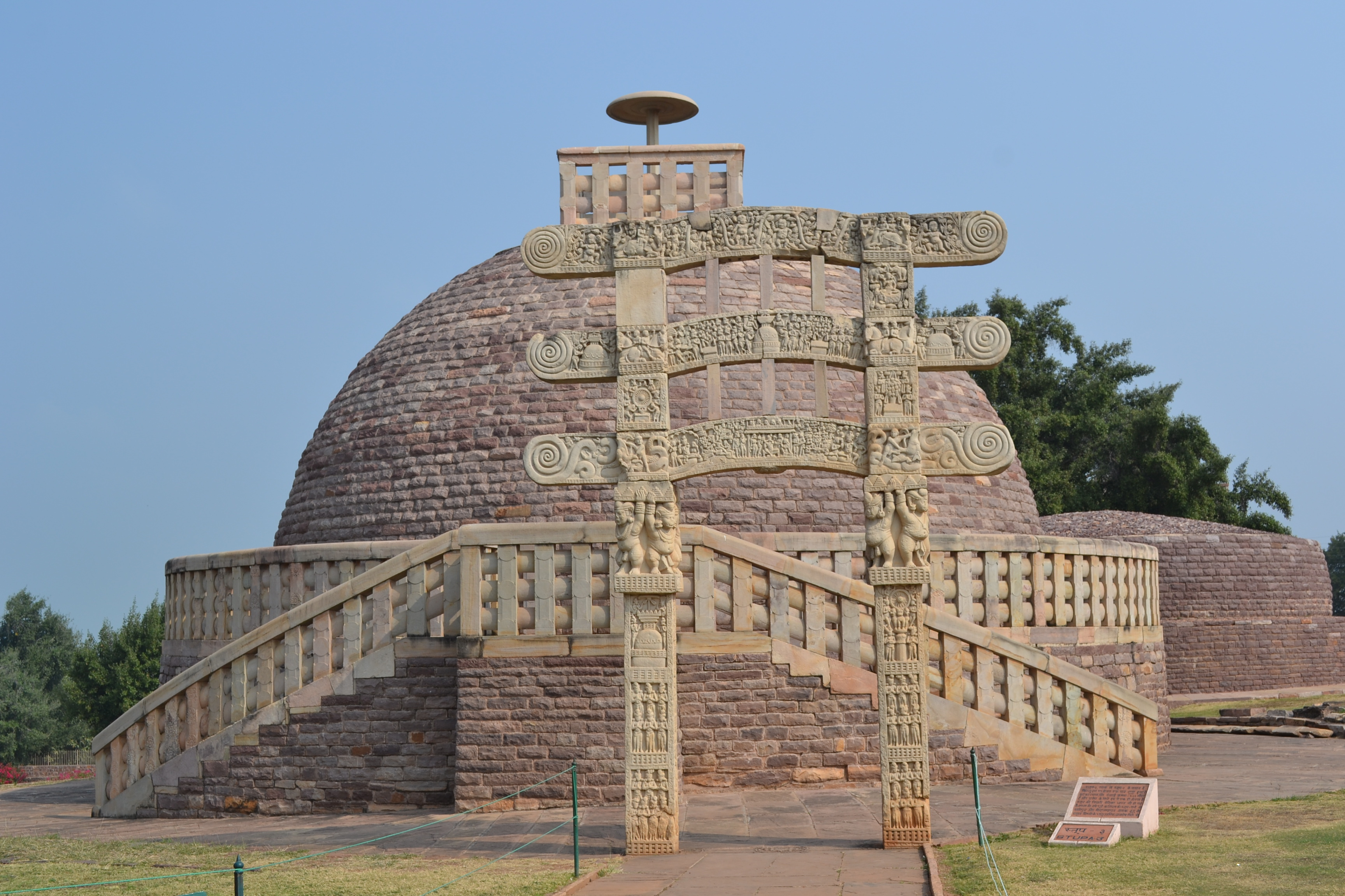 Stupa n° 3. Gana-s on the unique torana, looking south. Sanchi